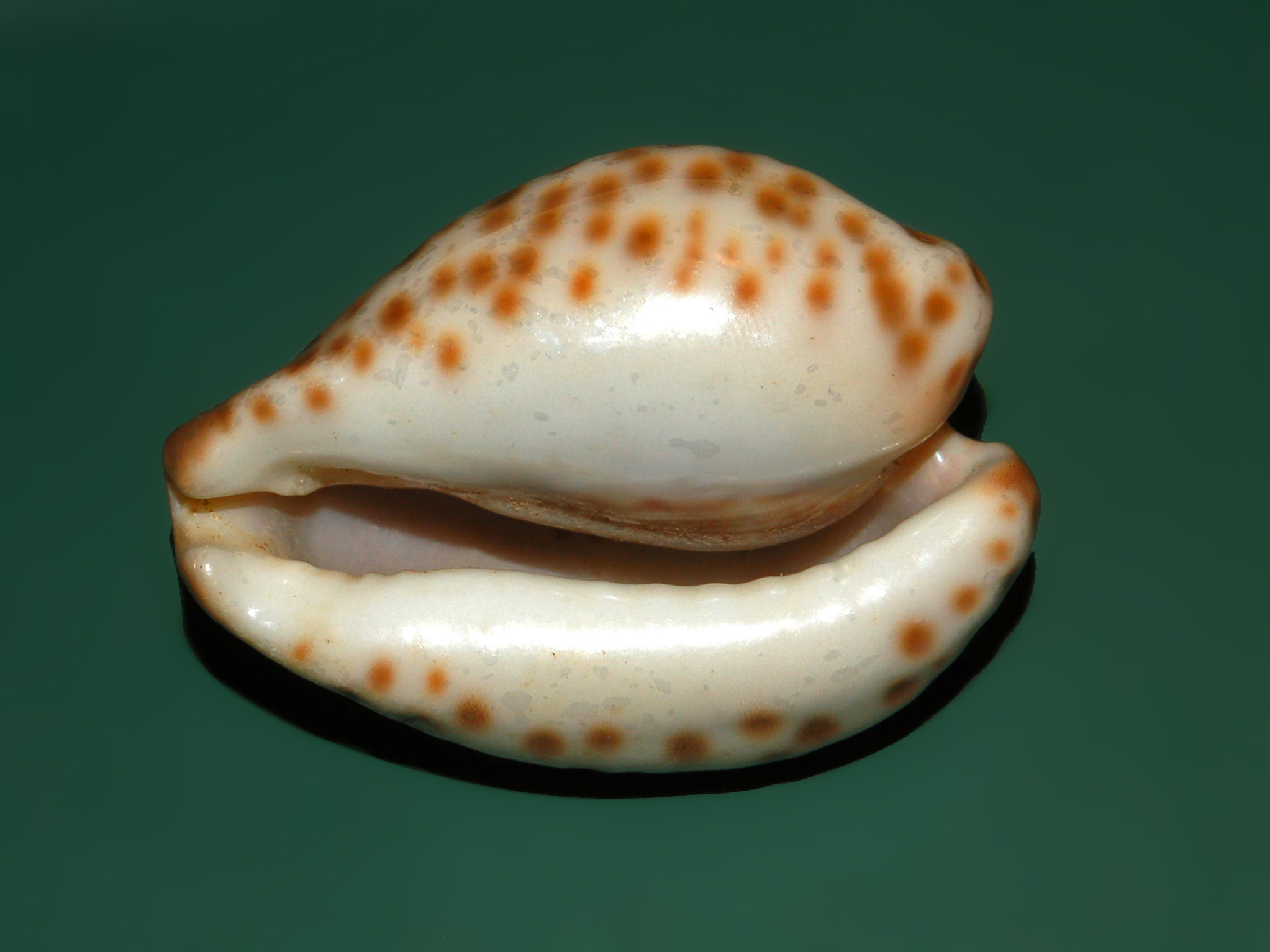 Bernaya teulerei